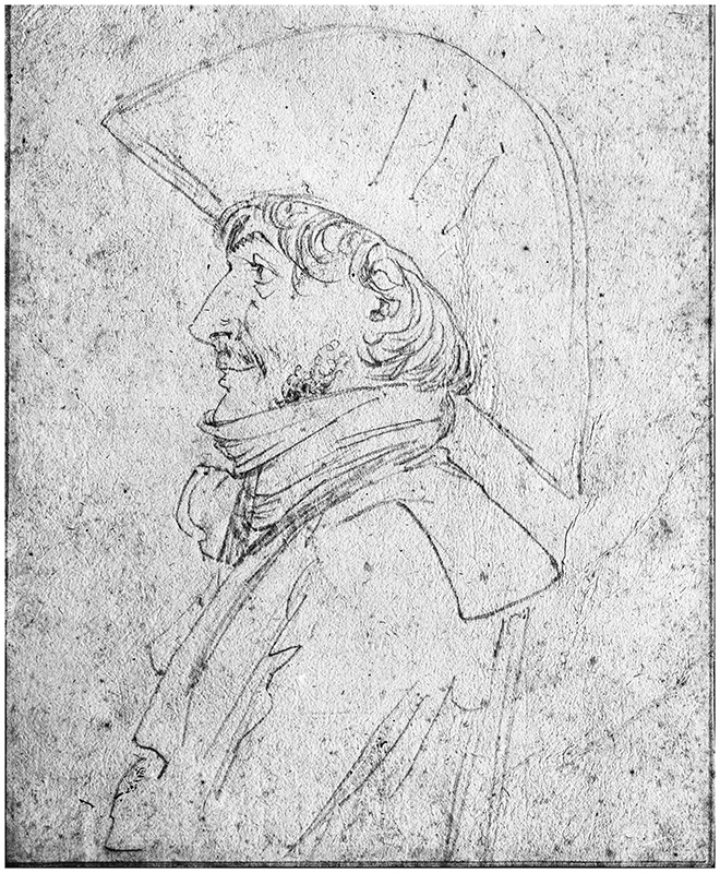 Portrait of Jean Emile Humbert (1771-1839)